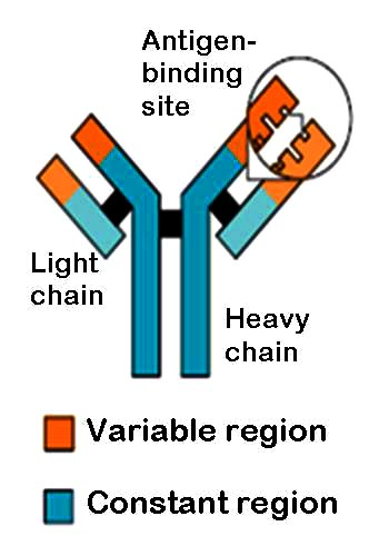 An antibody is made up of two heavy chains and two light chains. The variable region, which differs from one antibody to the next, allows an antibody to recognize its matching antigen.